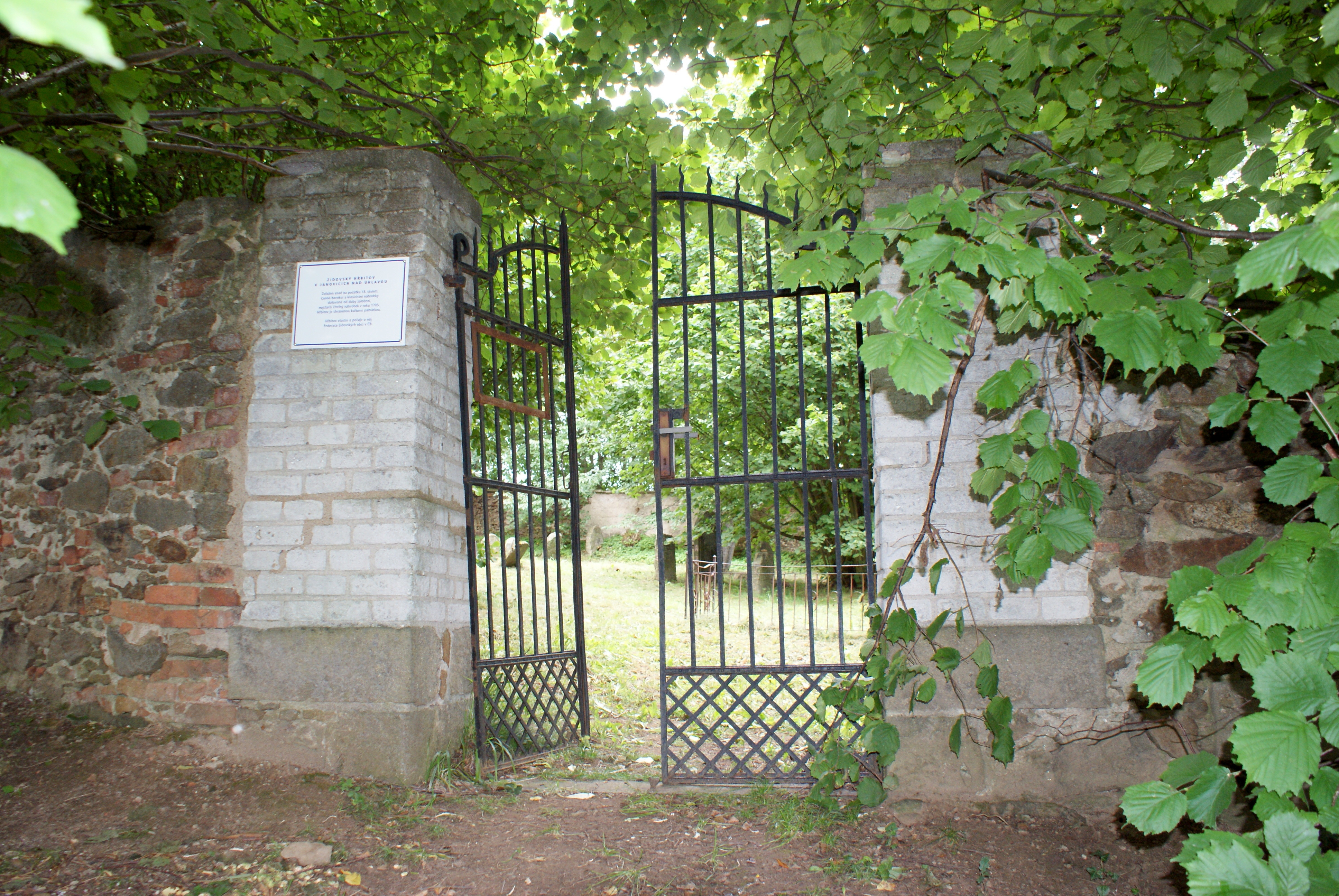 Jewish cemetery in Janovice nad Úhlavou, Klatovy district, Czech Republic.